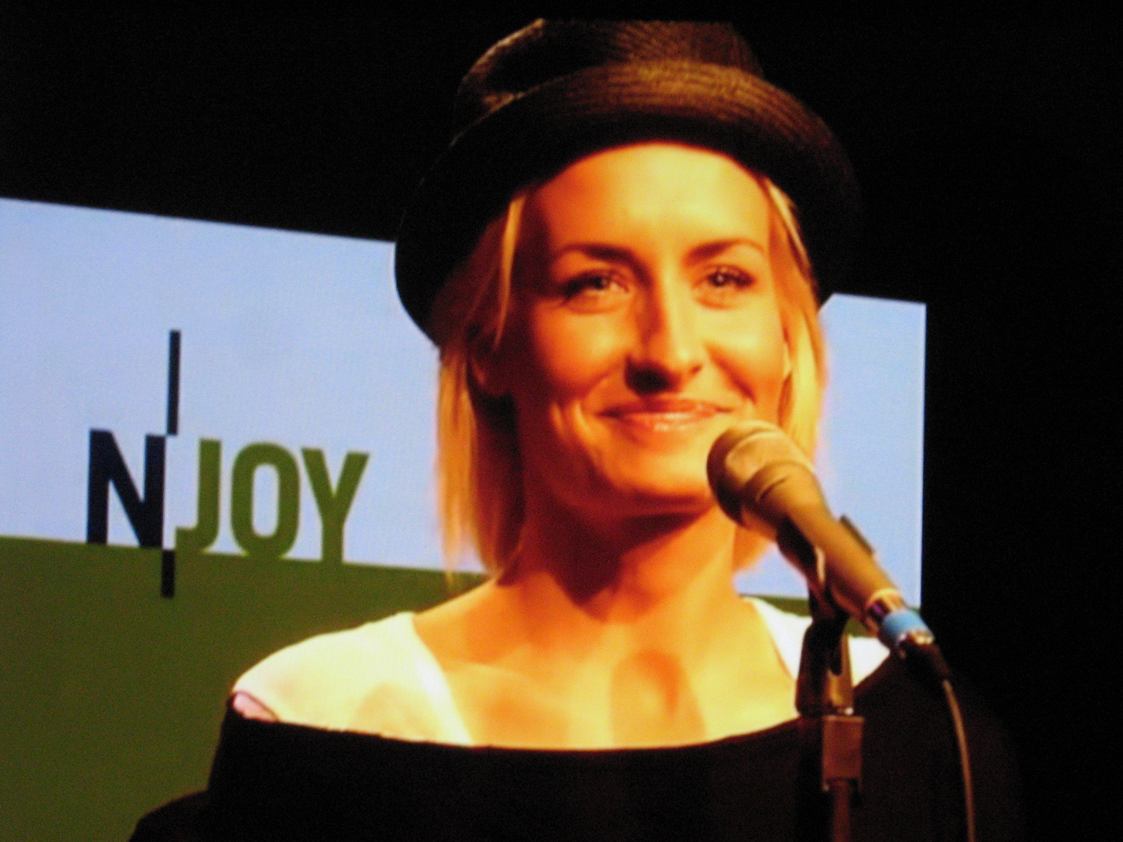 Sarah Connor live